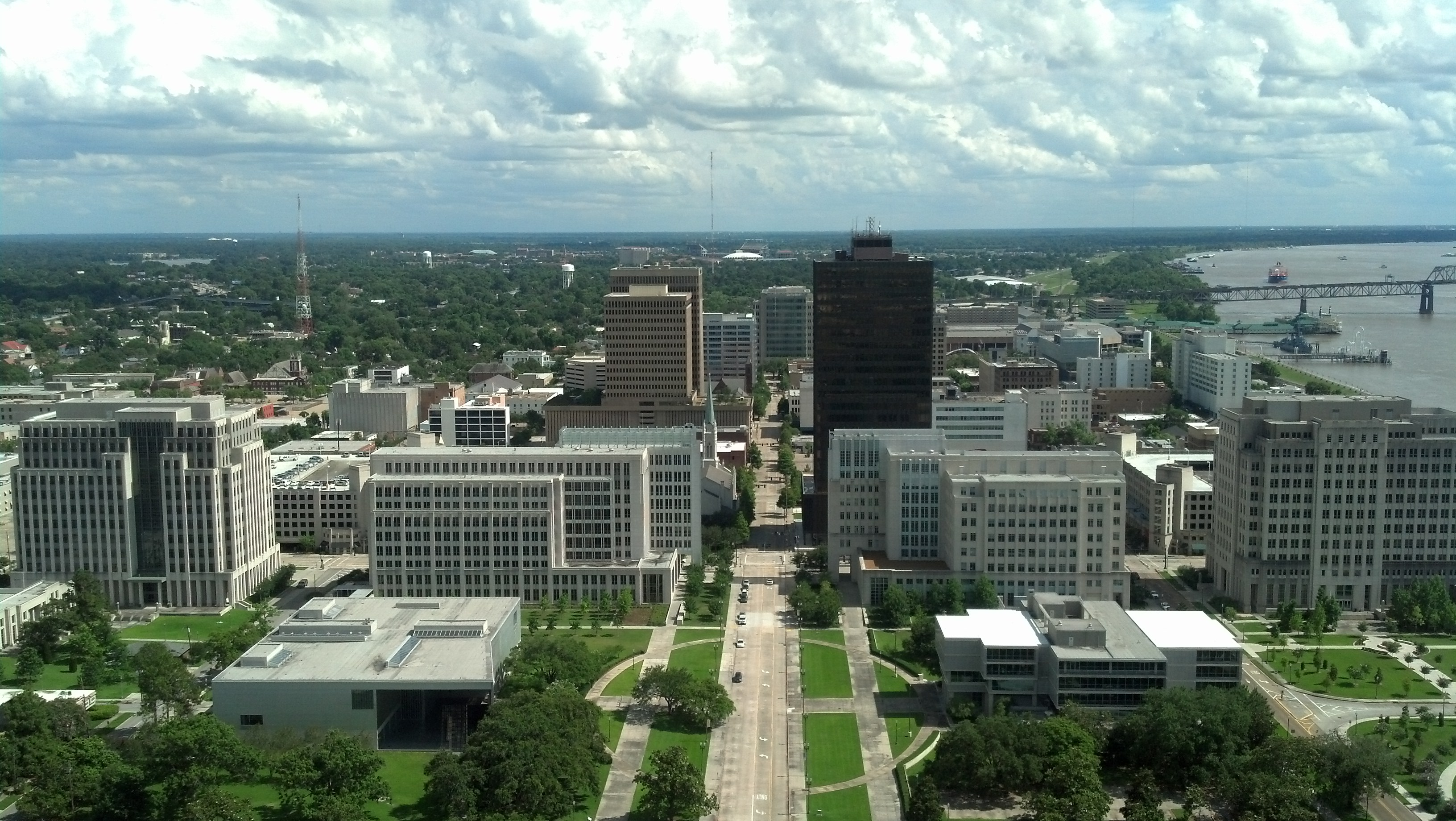 Downtown Baton Rouge from Louisiana State Capitol